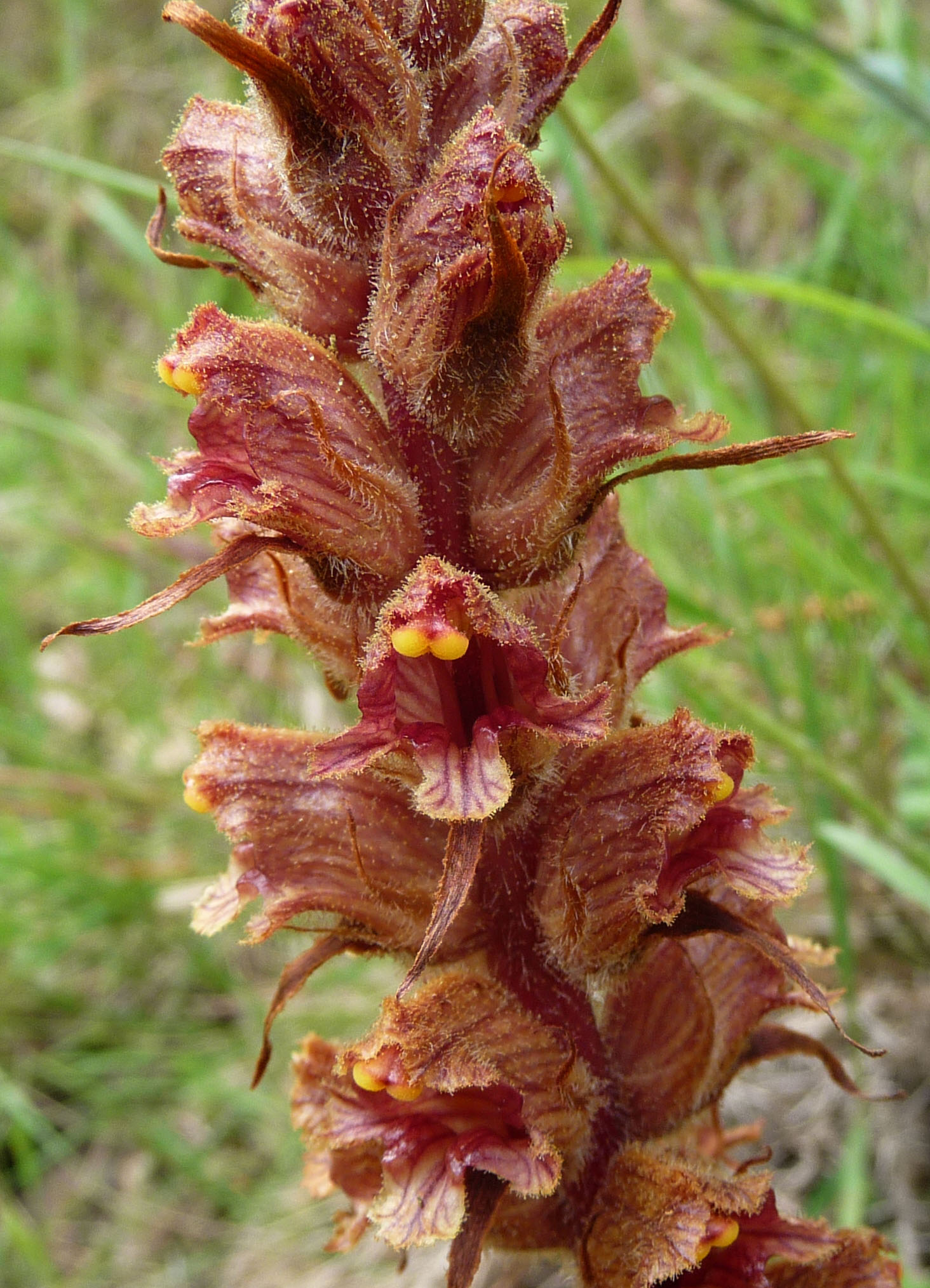 Orobanche austrohispanica. (Orobanchaceae)